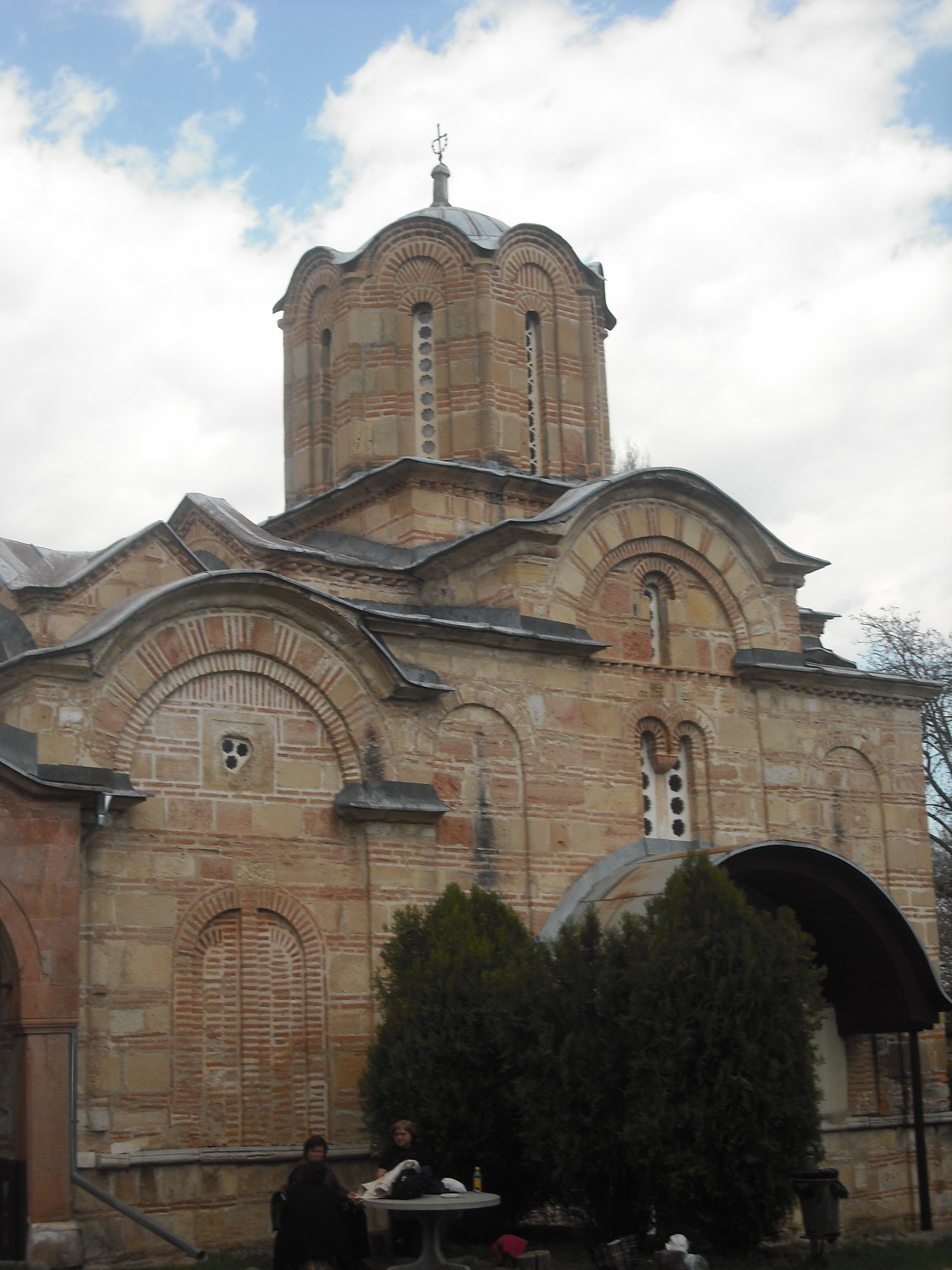 Marko's monastery (dedicated to St. Demetrius), located at Markova Sishica near Skopje, Macedonia